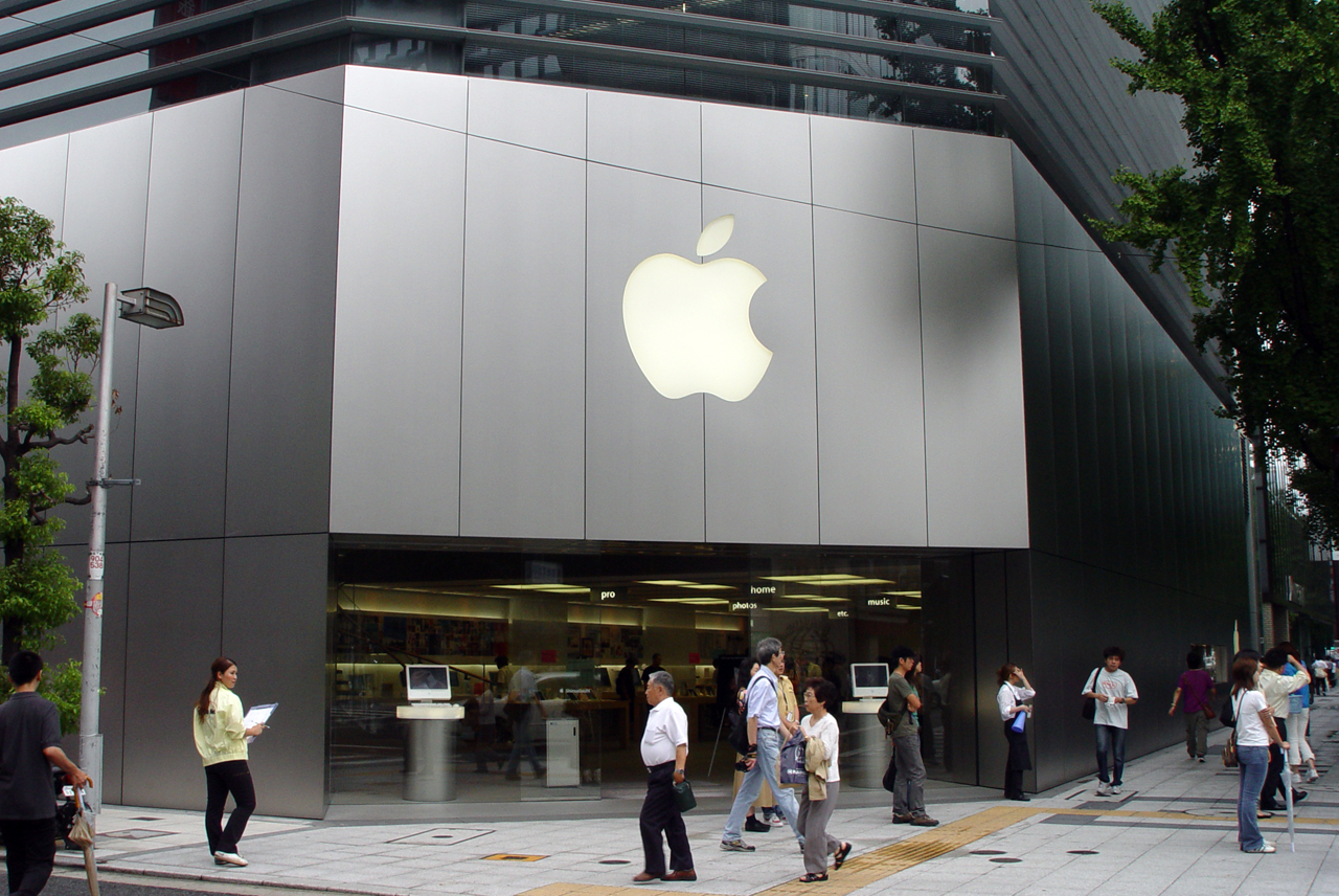 The first place we were able to get on the internet during the trip. Nice building.